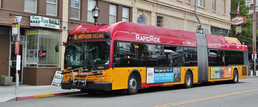 One of King County Metro's New Flyer DE60LFRs in service on the Rapid Ride C-line in West Seattle